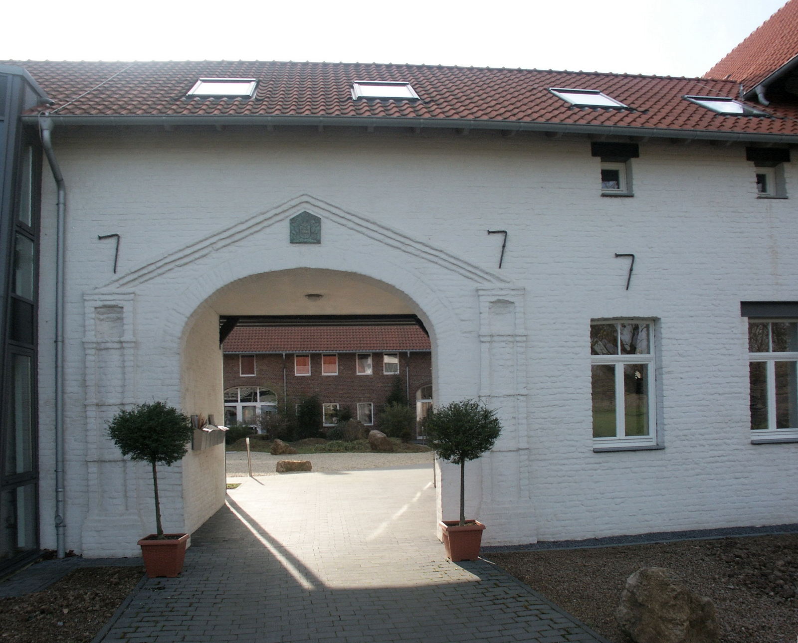 Portal of Gut Gansbroich in Hückelhoven-Baal